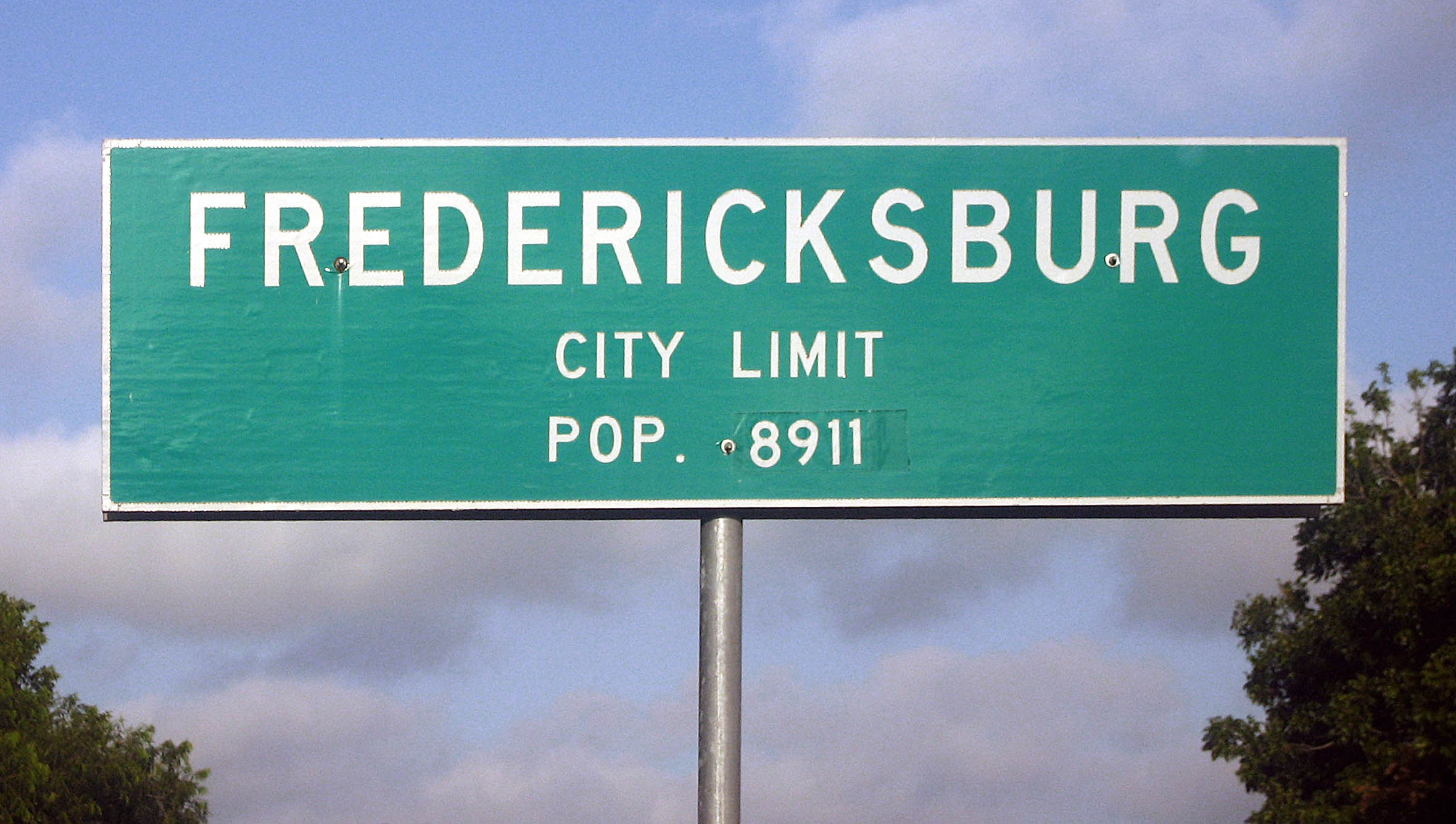 I took this photo on July 18, 2008.Billy Hathorn (talk) 17:50, 20 July 2008 (UTC)